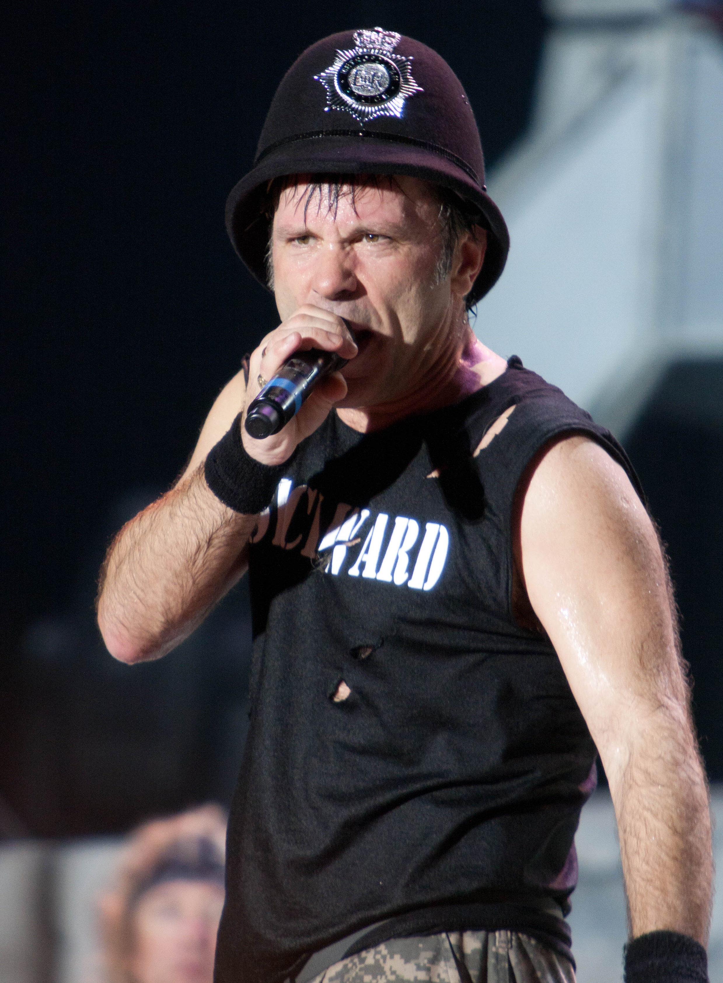 Cisco Systems Ottawa Bluesfest 2010 July 6'th 2010 Ottawa, Ontario MBNA Stage Bruce Dickinson